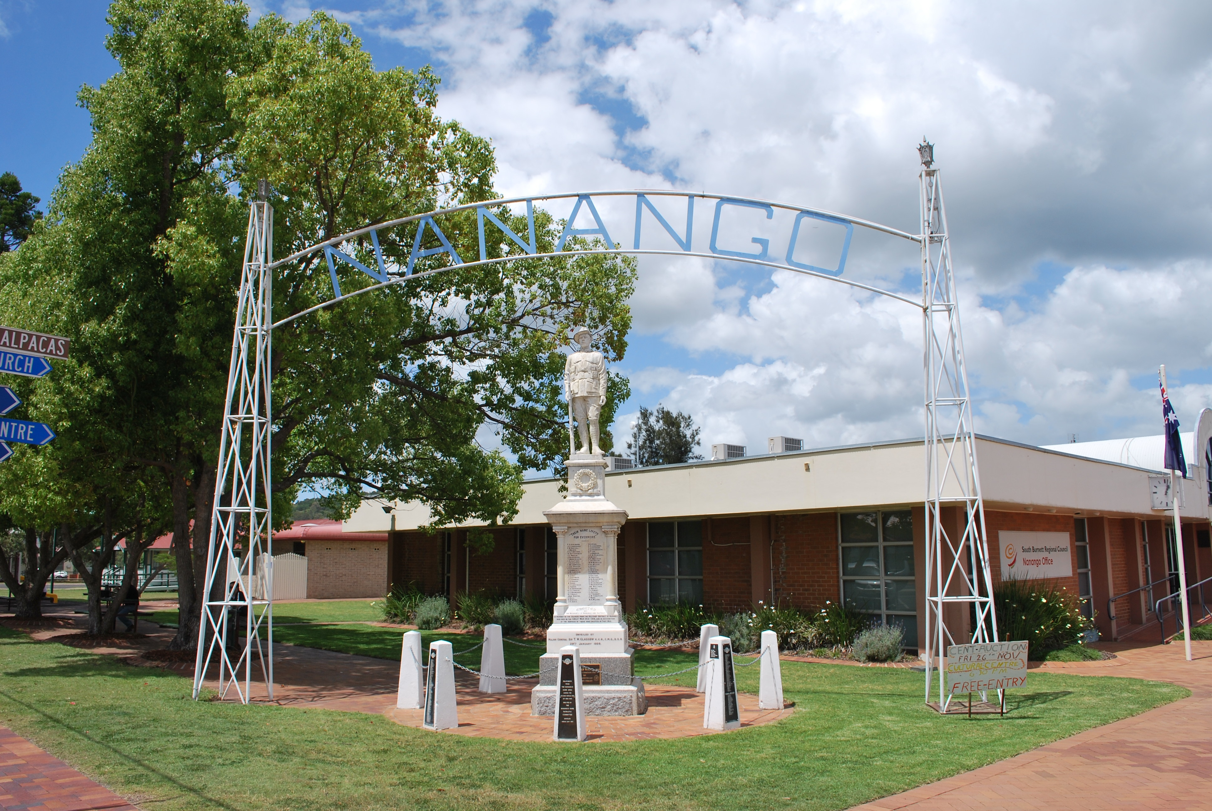 War memorial at Nanango, Queensland